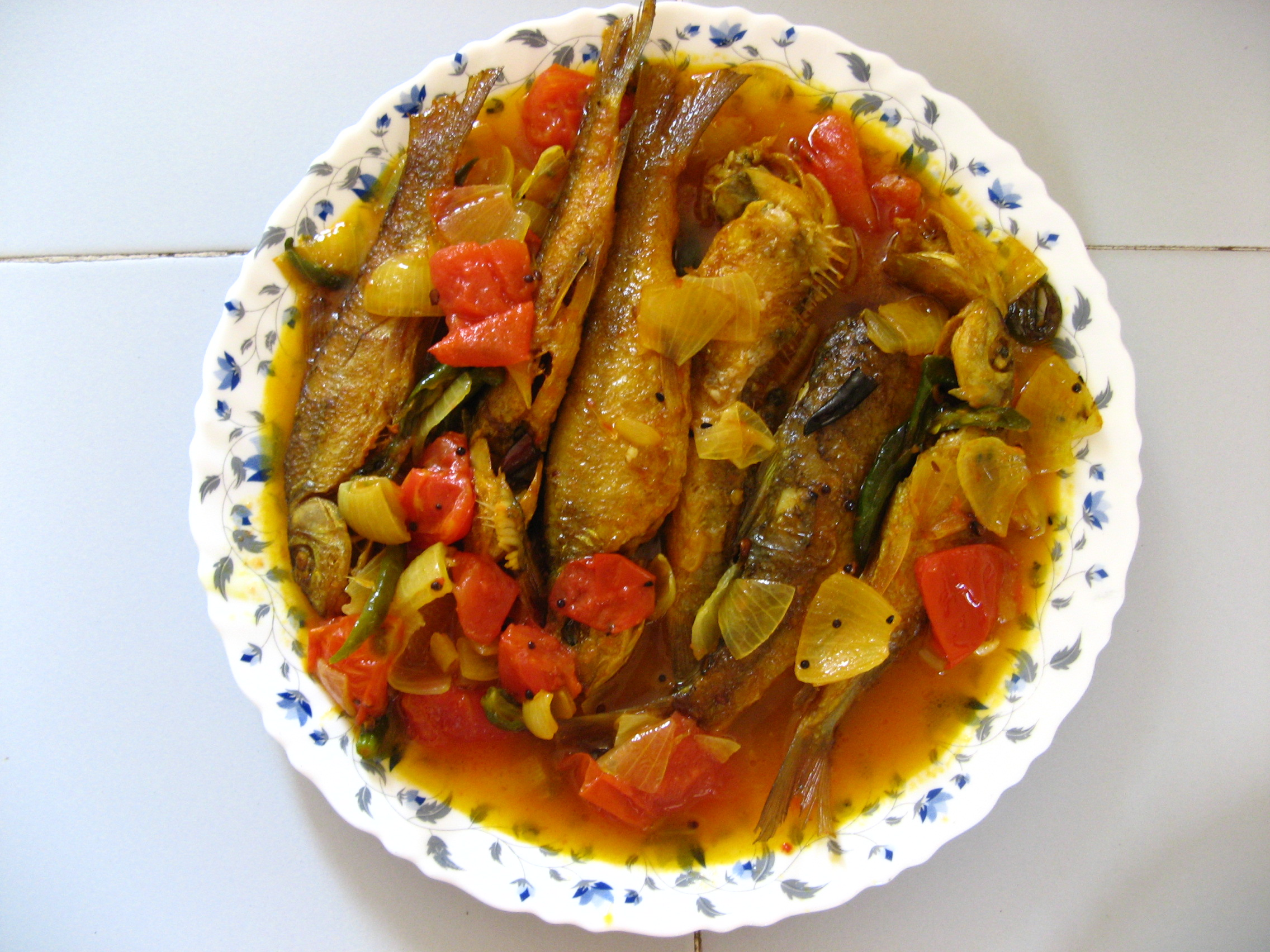 special fish curry of Puri district